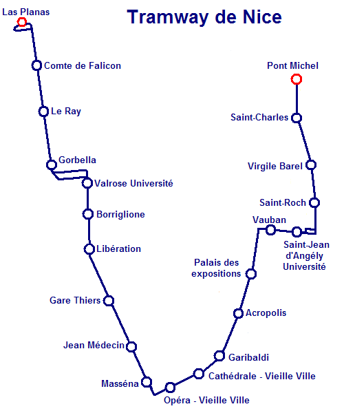 Map of the line 1 of the Tramway de Nice, Nice.